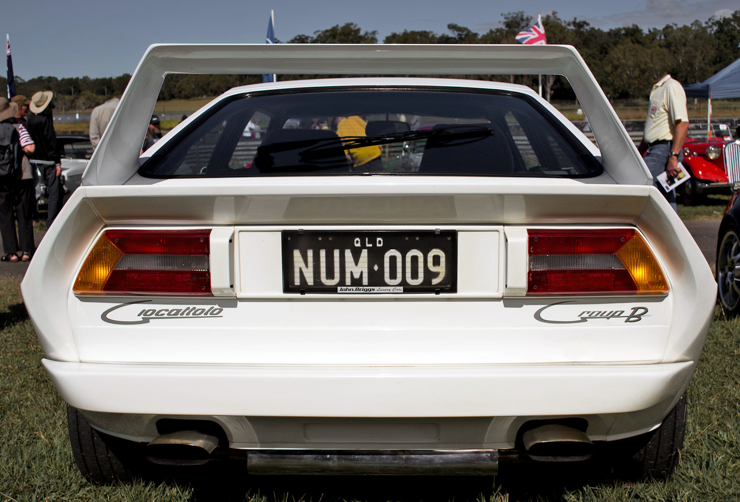 Giocattolo Group B, a Holden V8 mid-engined version of the Alfa Romeo Sprint built in Australia in fifteen examples in the 1980s.